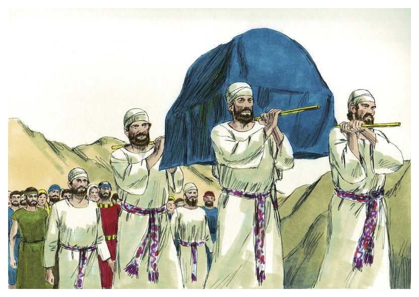 Biblical illustration of Book of Exodus Chapter 25